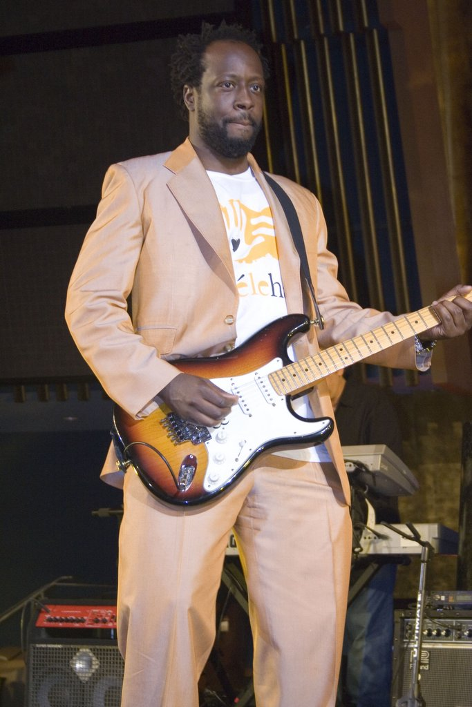 Wyclef Jean performing at the General Assembly Hall of the United Nations Headquarters in New York City, New York, United States for UNAIDS.